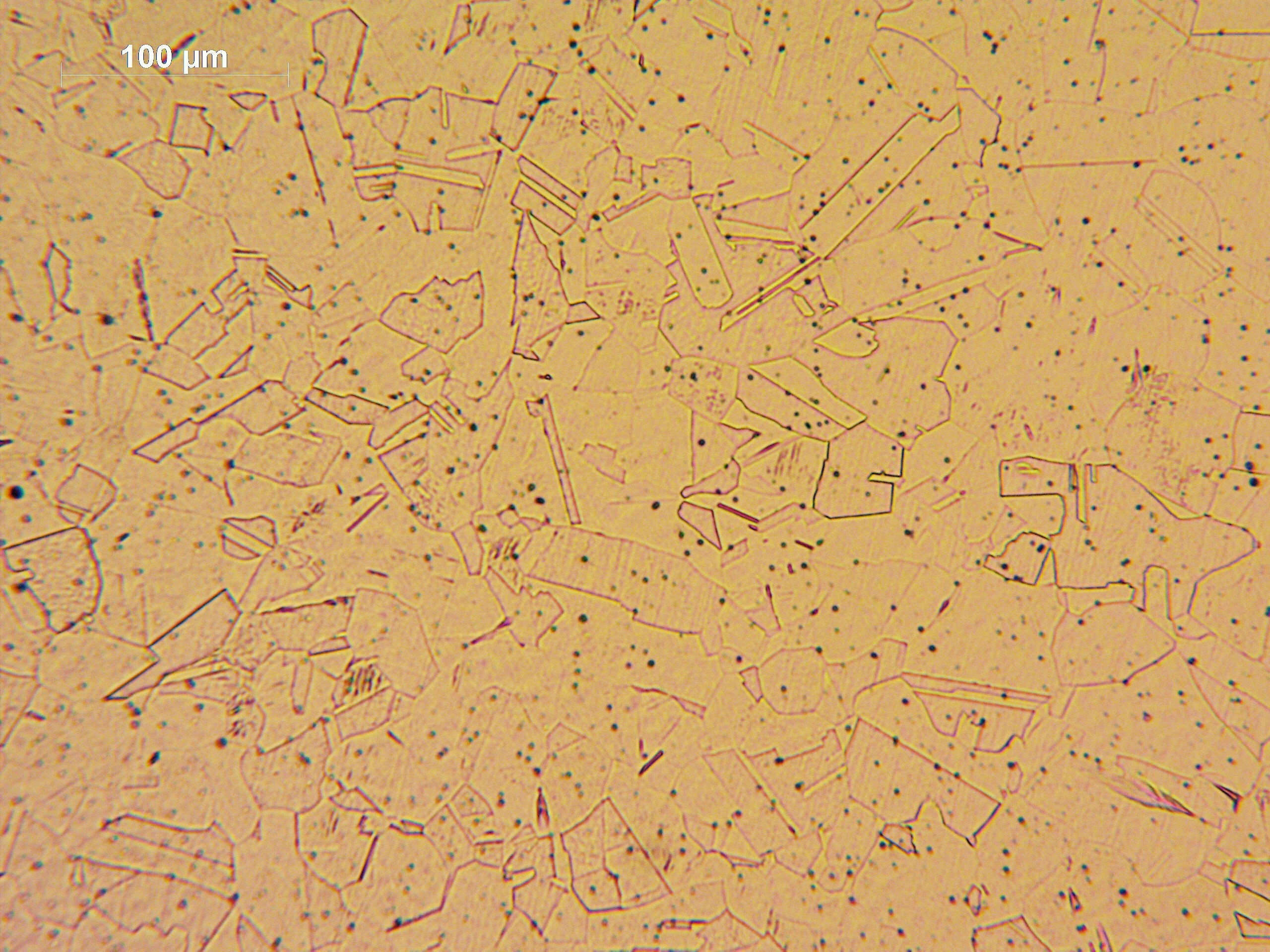 Austenitic structure of a SAE 304 (Cr Ni 18 10) steel